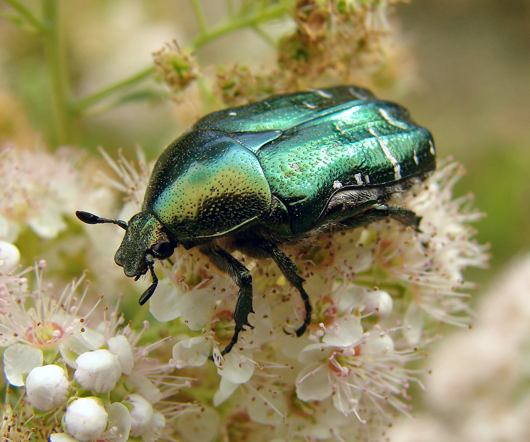 Rose Chaffer